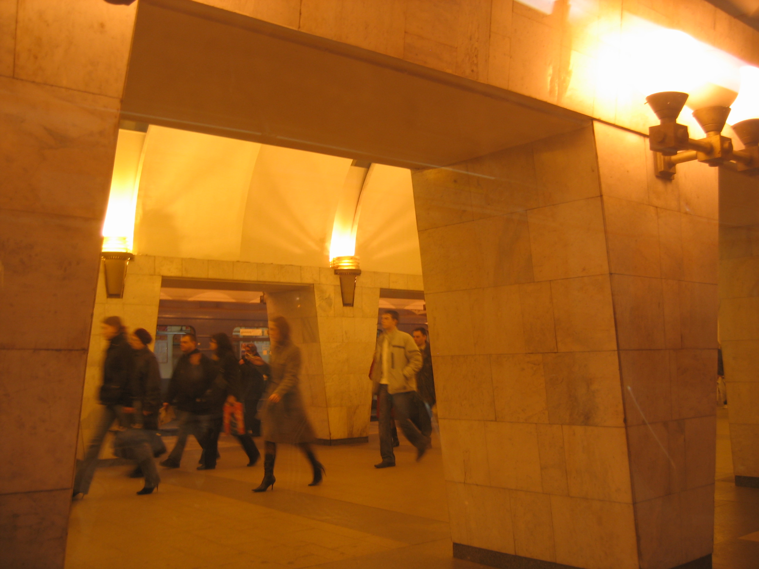 Prospect Prosvescheniya subway station, St. Peterburg, Russia